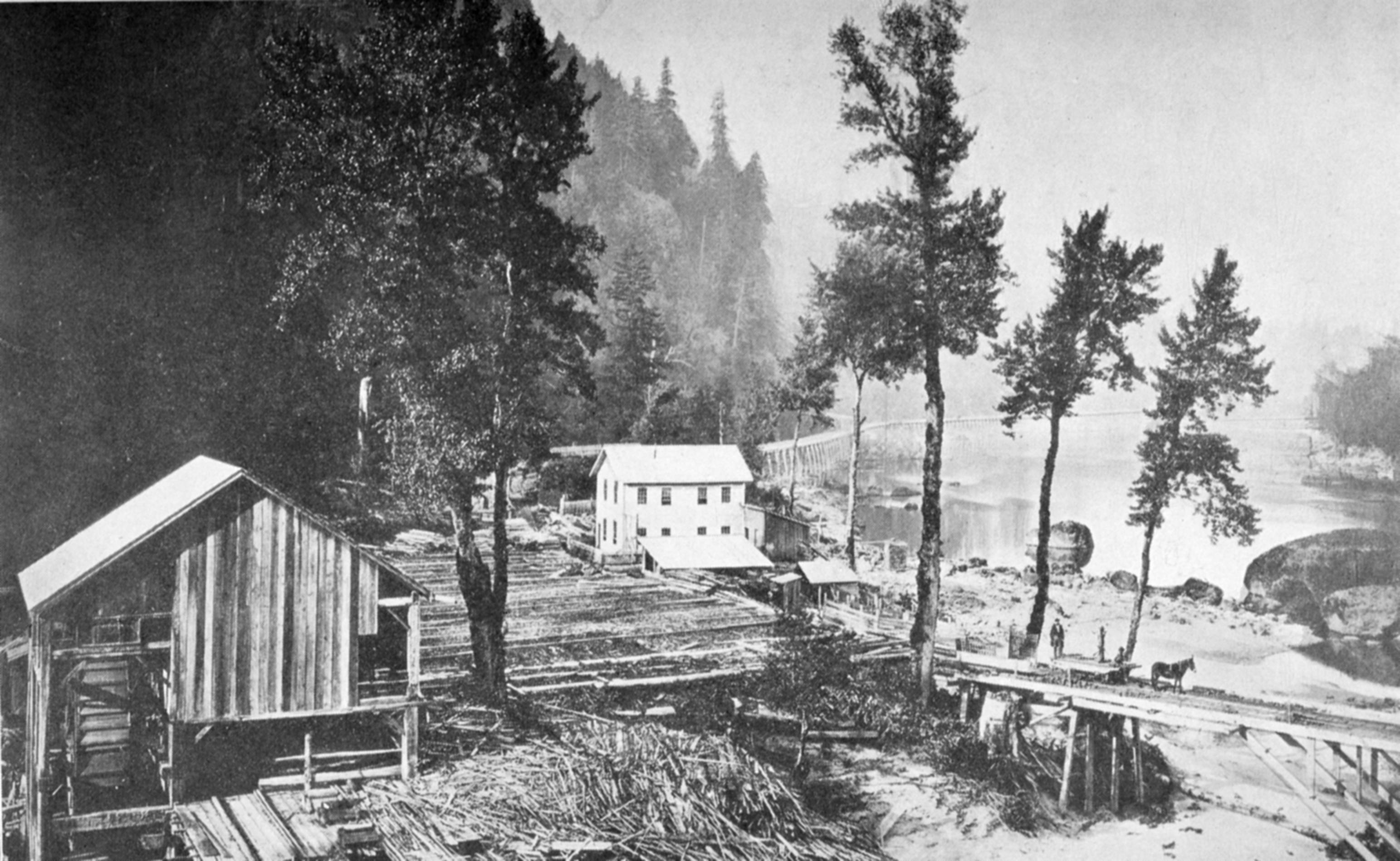 Image from the Oregon Historical Quarterly Vol. 25